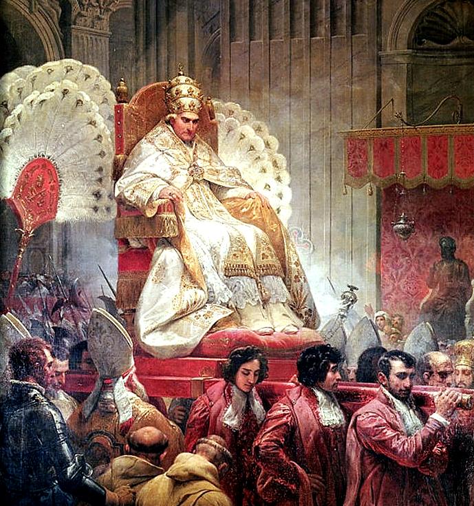 Pope Pius VIII in St. Peter's on the Sedia Gestatoria